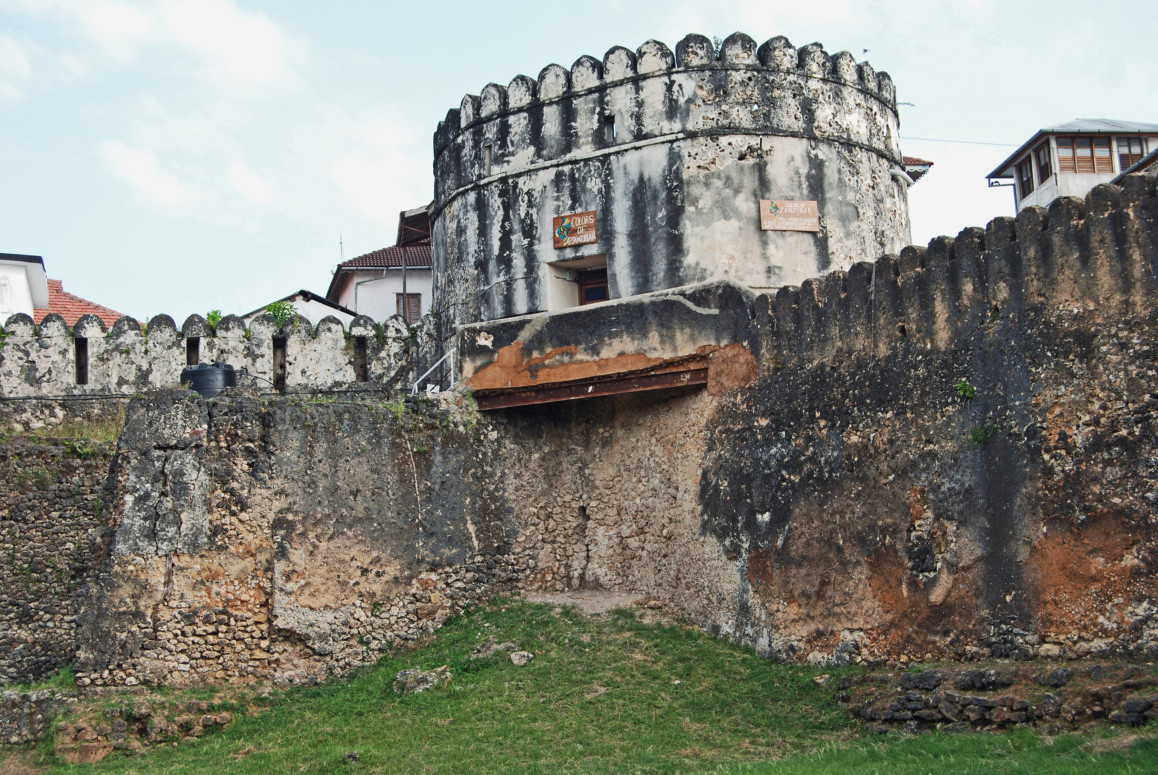 On a walk through Stone Town, Zanzibar / The Old Fort (Swahili: Ngome Kongwe), also known as the Arab Fort, is the oldest building in Stone Town. It is located on the main seafront, adjacent to the House of Wonders (former palace of the Sultan of Zanzibar), facing the Forodhani Gardens. It was built in late 17th century by the Omanis to defend the island from the Portuguese